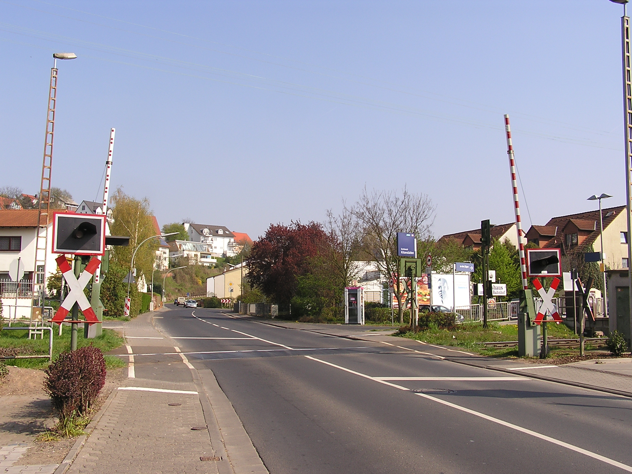 This level crossing with gates an blinking lights at the Niddertalbahn is located in Schöneck-Kilianstädten.